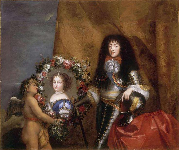 Philippe I, Duke of Orléans (1640-1701) with his favourite daughter Marie Louise (future Queen of Spain)